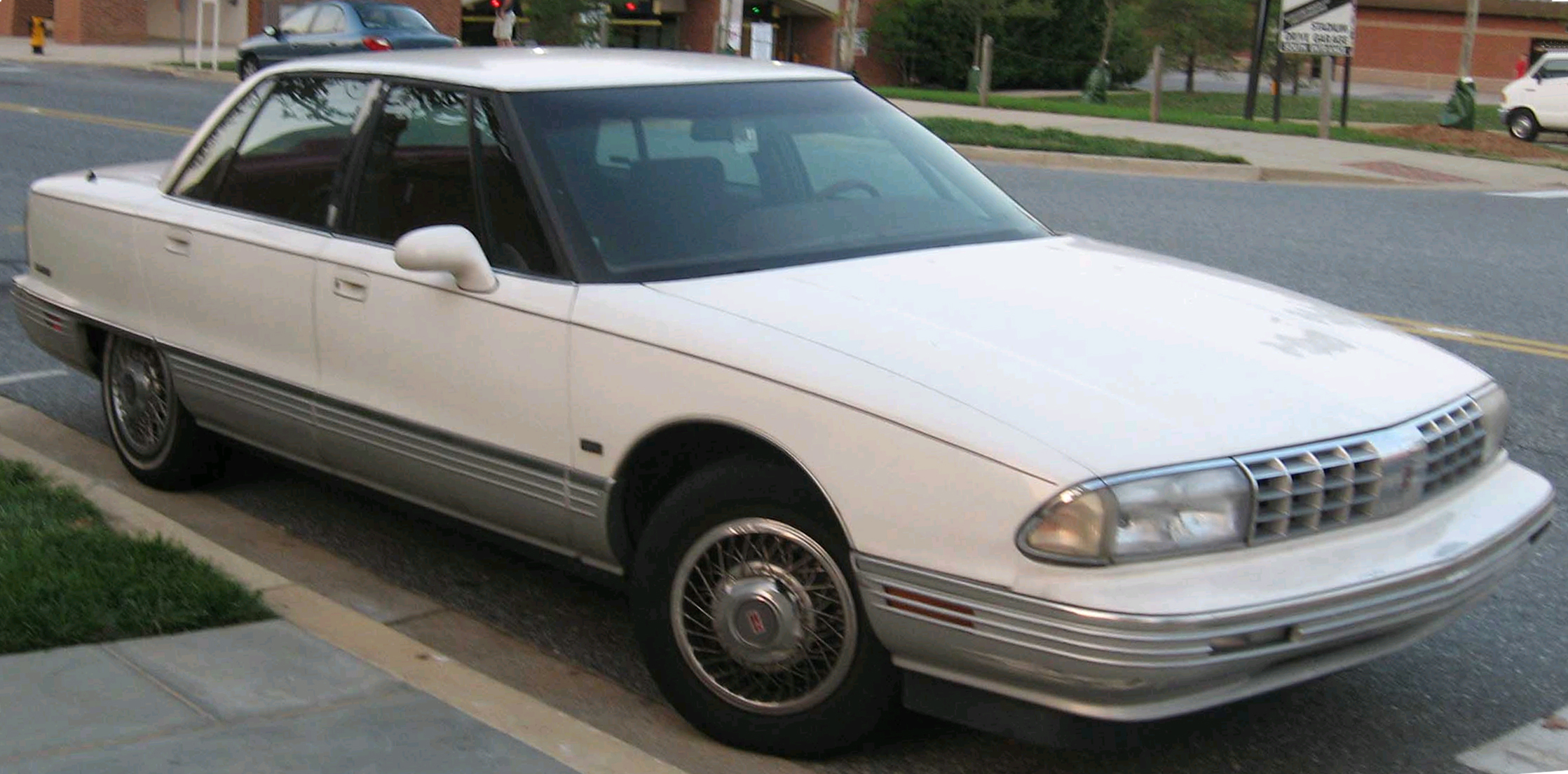 1991-1996 Oldsmobile Ninety-Eight photographed in USA.